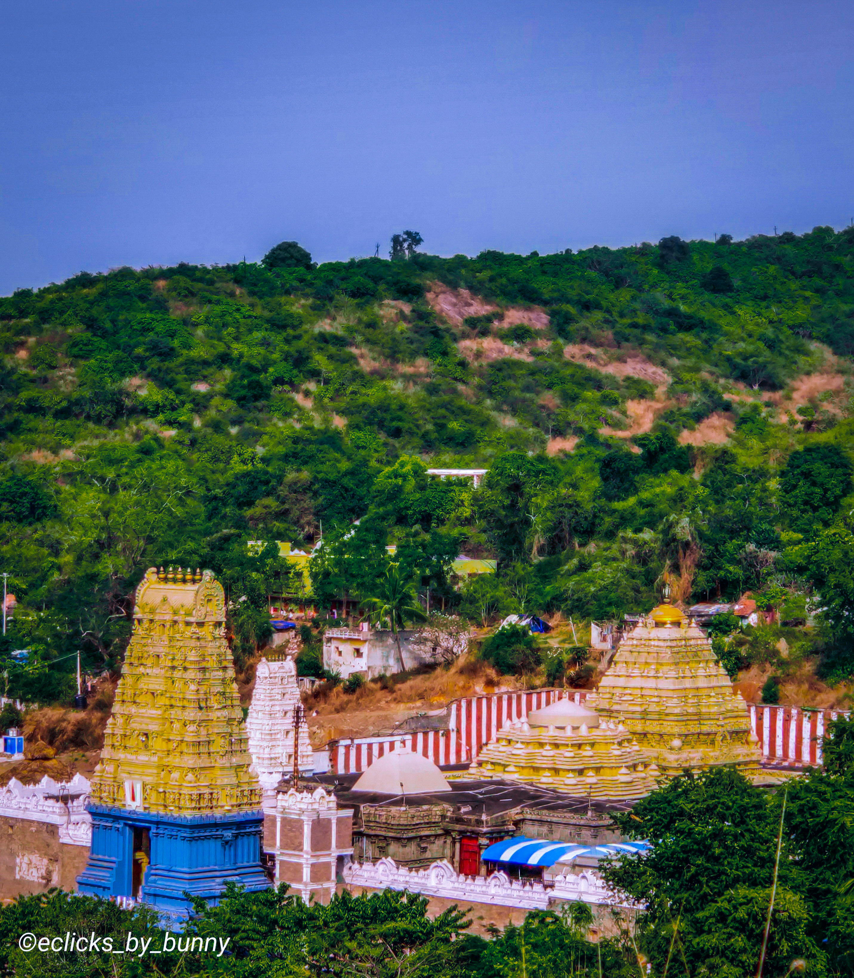 Simhachalam Varaha Narasimha Temple from a hilltop